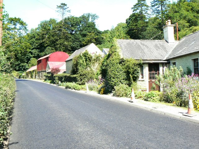 Cottages and barn Alongside the Eadestown to Blessington road.